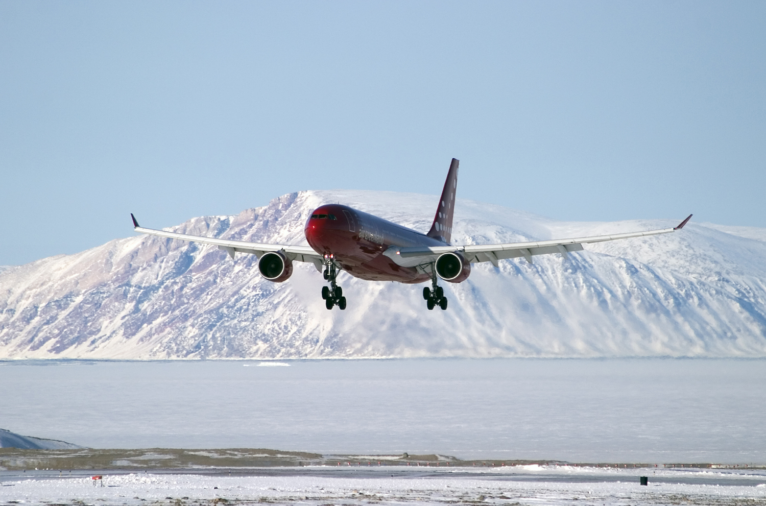 AirGreenland Airbus